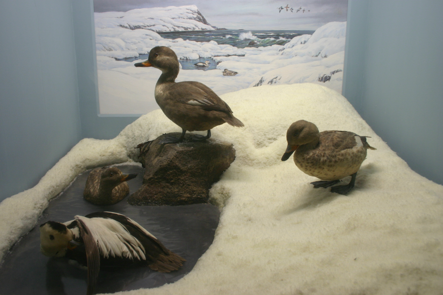 Visit my blog at for science news, links, and articles.